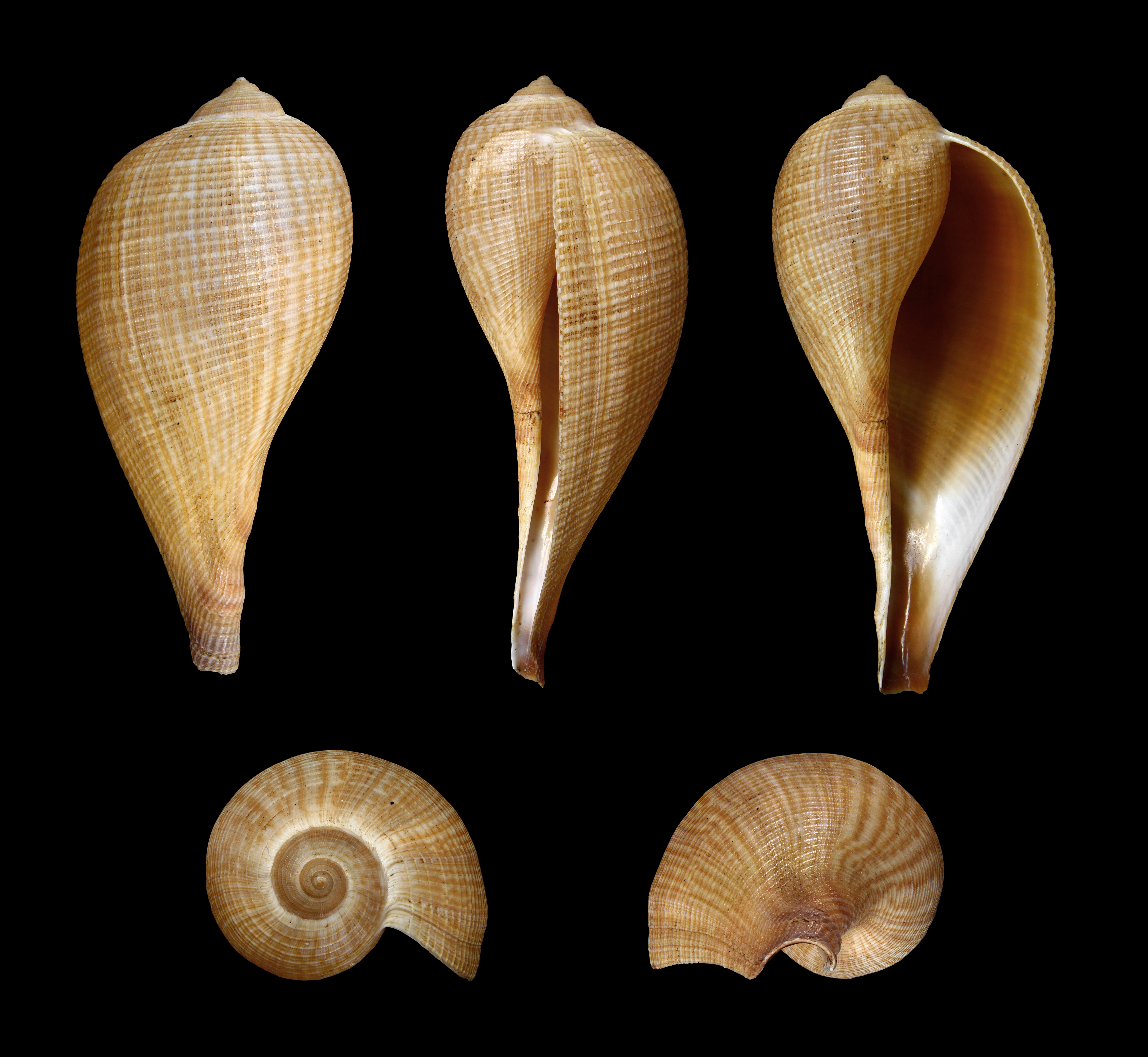 Graceful Fig Shell; Length 11 cm; Originating from Japan; Shell of own collection, therefore not geocoded. Dorsal, lateral (right side), ventral, back, and front view.